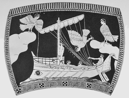 Odysseus and the Sirens. Detail from an Attic red-figured stamnos, ca. 480-470 BC. From Vulci.